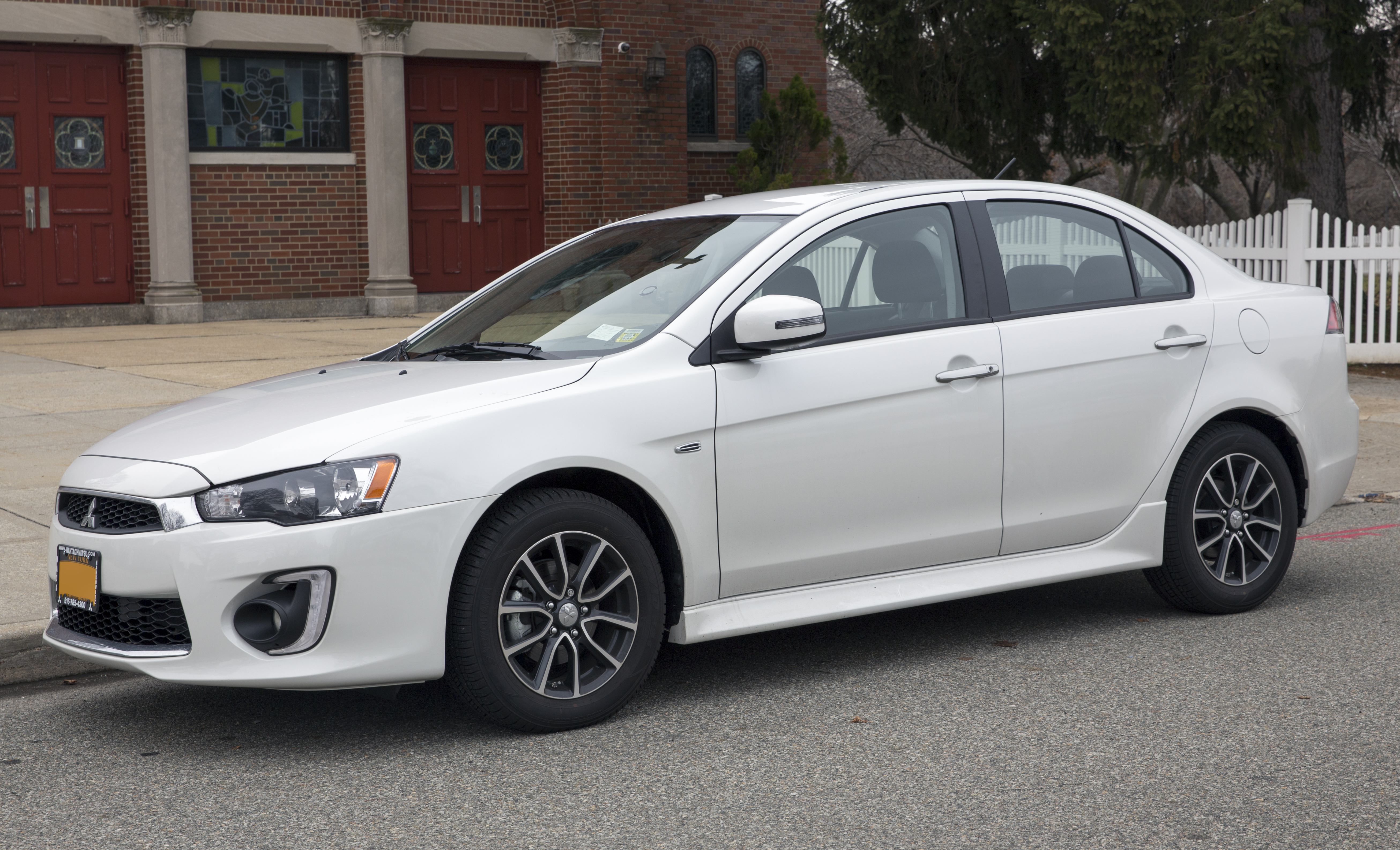 A 2017 Mitsubishi Lancer 2.4 ES AWC ("All-Wheel Control", Mitsu's name for their electronically controlled four-wheel drive system) in Diamond White Pearl. 2.4 L DOHC MIVEC and a CVT. MSRP was 21,360 but considering that this particular car was only first sold at the beginning of February 2018, I think the price paid was considerably lower.